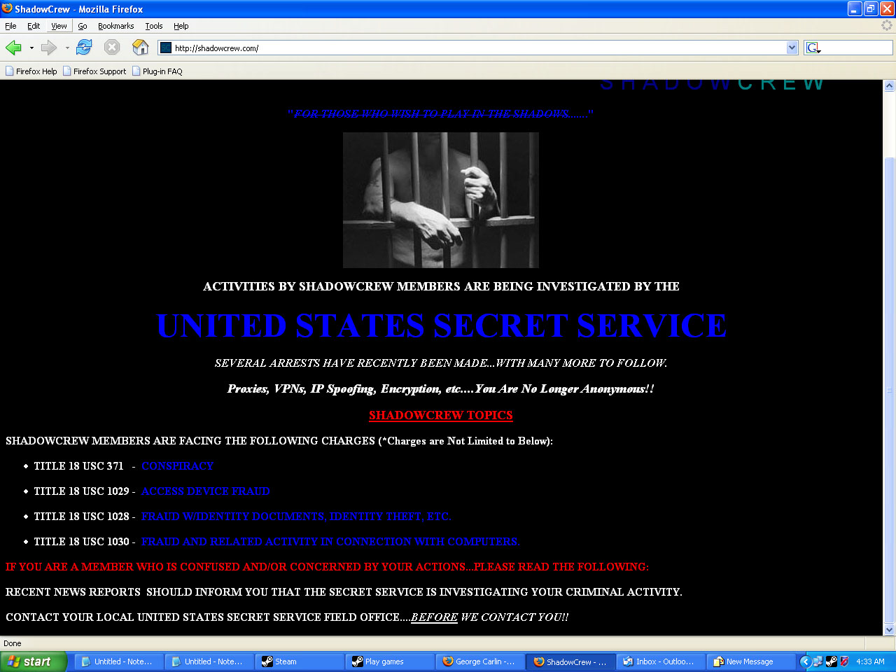 This screenshot was taken 11/02/2004 at 4:33AM right after Shadowcrew was busted by the Secret service.